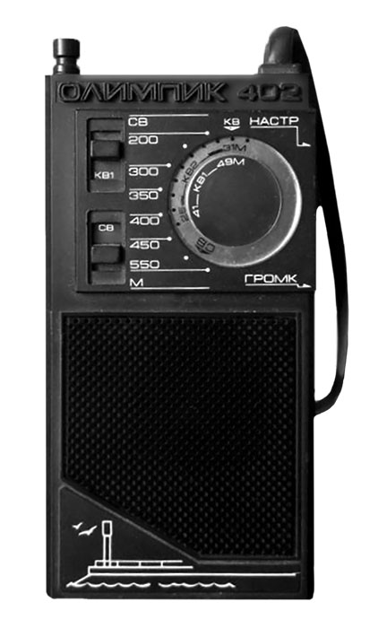 Olimpik-402, portable radio receiver